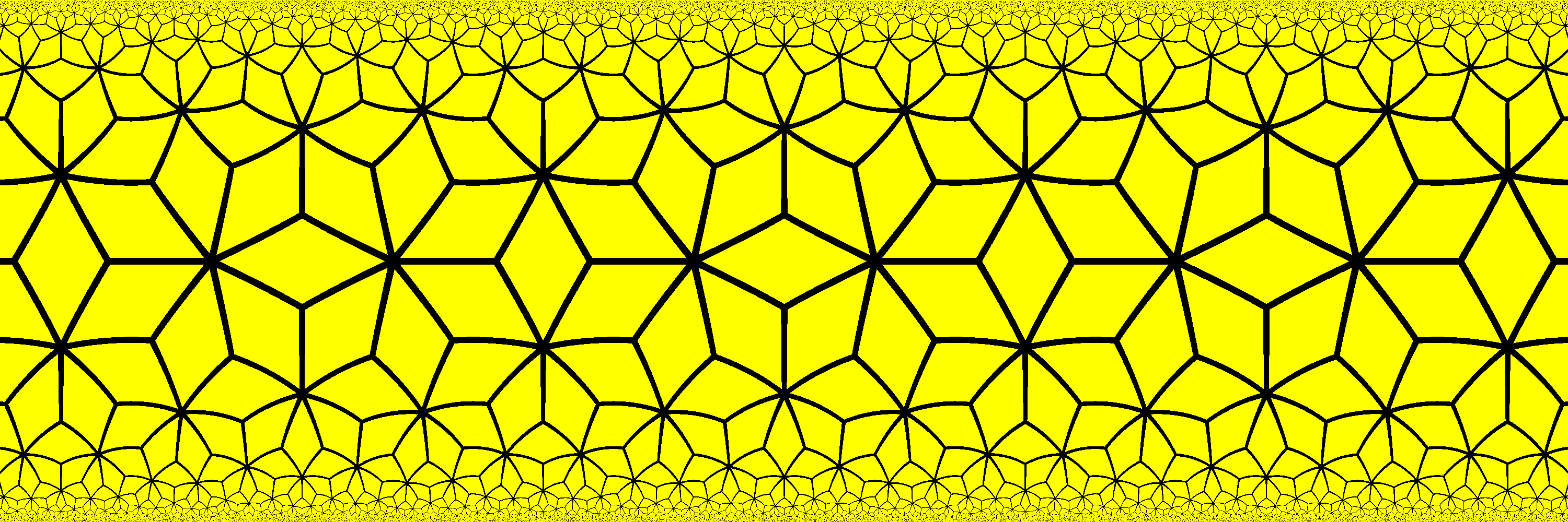 Hyperbolic Order 7-3 quasiregular rhombic tiling in a portion of the Band Model.